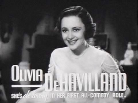 Screenshot of Olivia de Havilland from the film Call It a Day